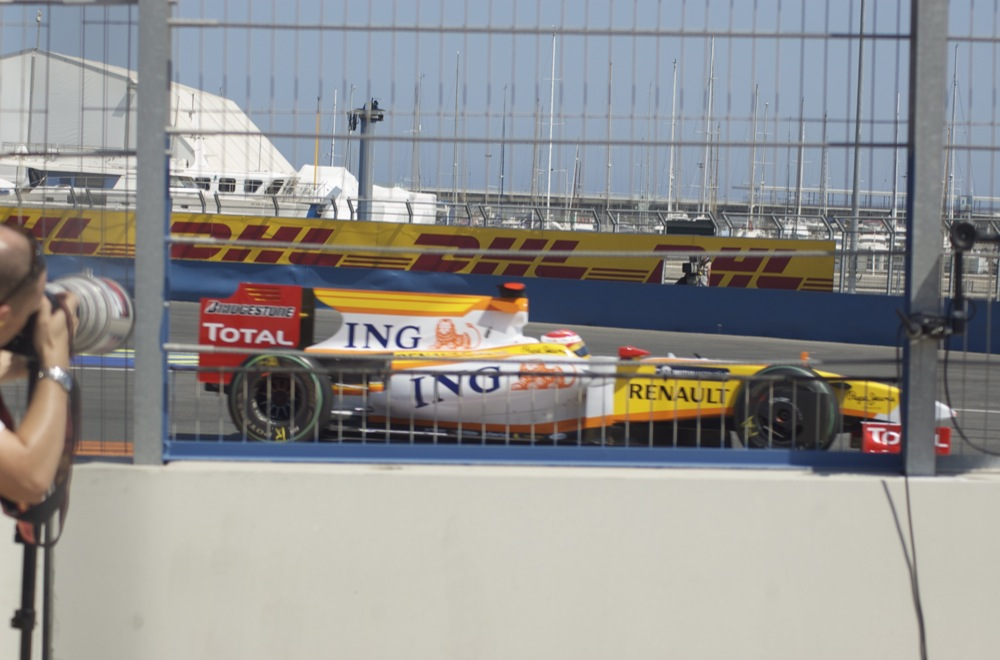 Fernando Alonso driving for Renault F1 at the 2009 European Grand Prix.